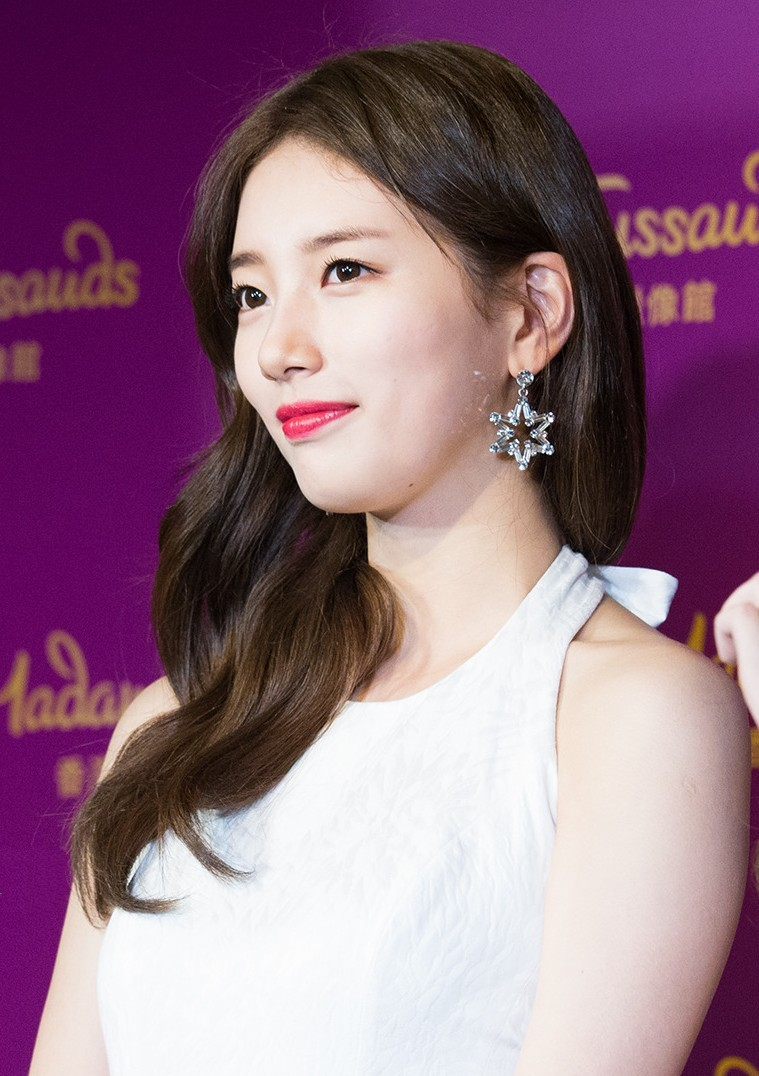 Suzy at Madame Tussauds Hong Kong, 13 September 2016